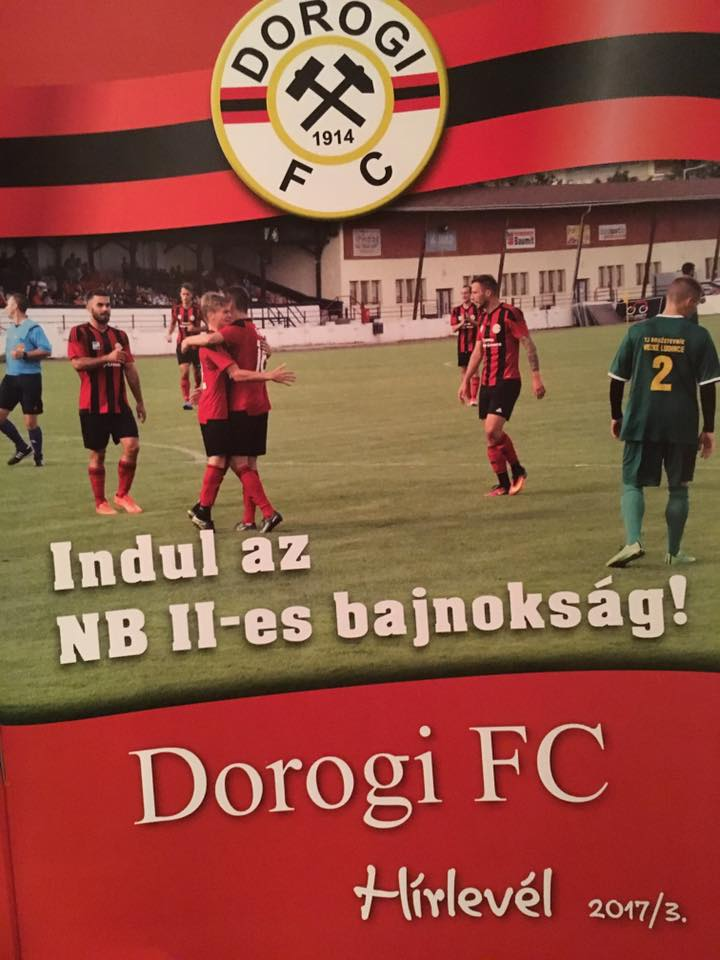 This newsletter is a popular edition by sport club of Dorog since 2011. Distribution is four times per year and it is free. All fan get one of next to their ticket.